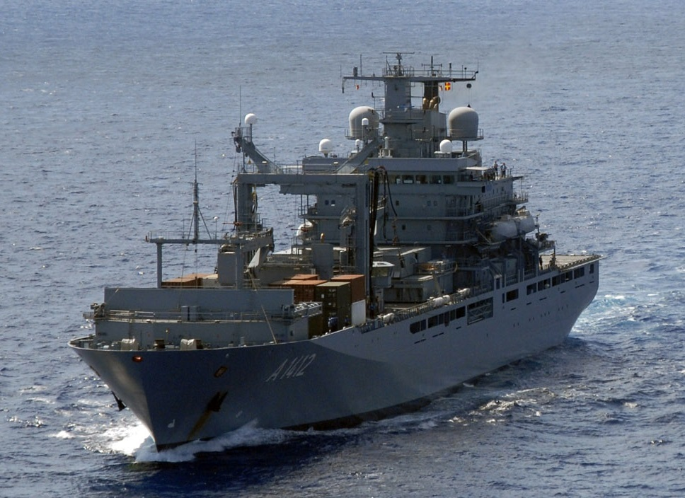 German combat support ship Frankfurt am Main (AM 1412) on April 26, 2009 (U.S. Navy photo by Mass Communication Specialist 1st Class (SW) Hodges Pone III)